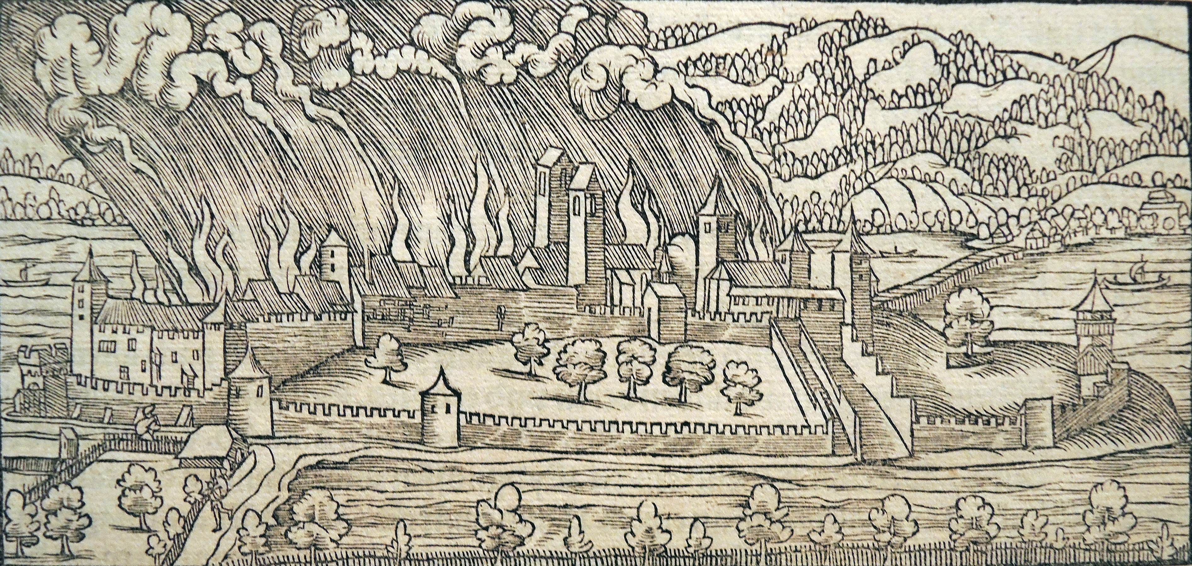 Rapperswil-Jona : Rudolf Brun destroyed Rapperswil 1350, 'Stumpf'sche Chronik 1547/48'